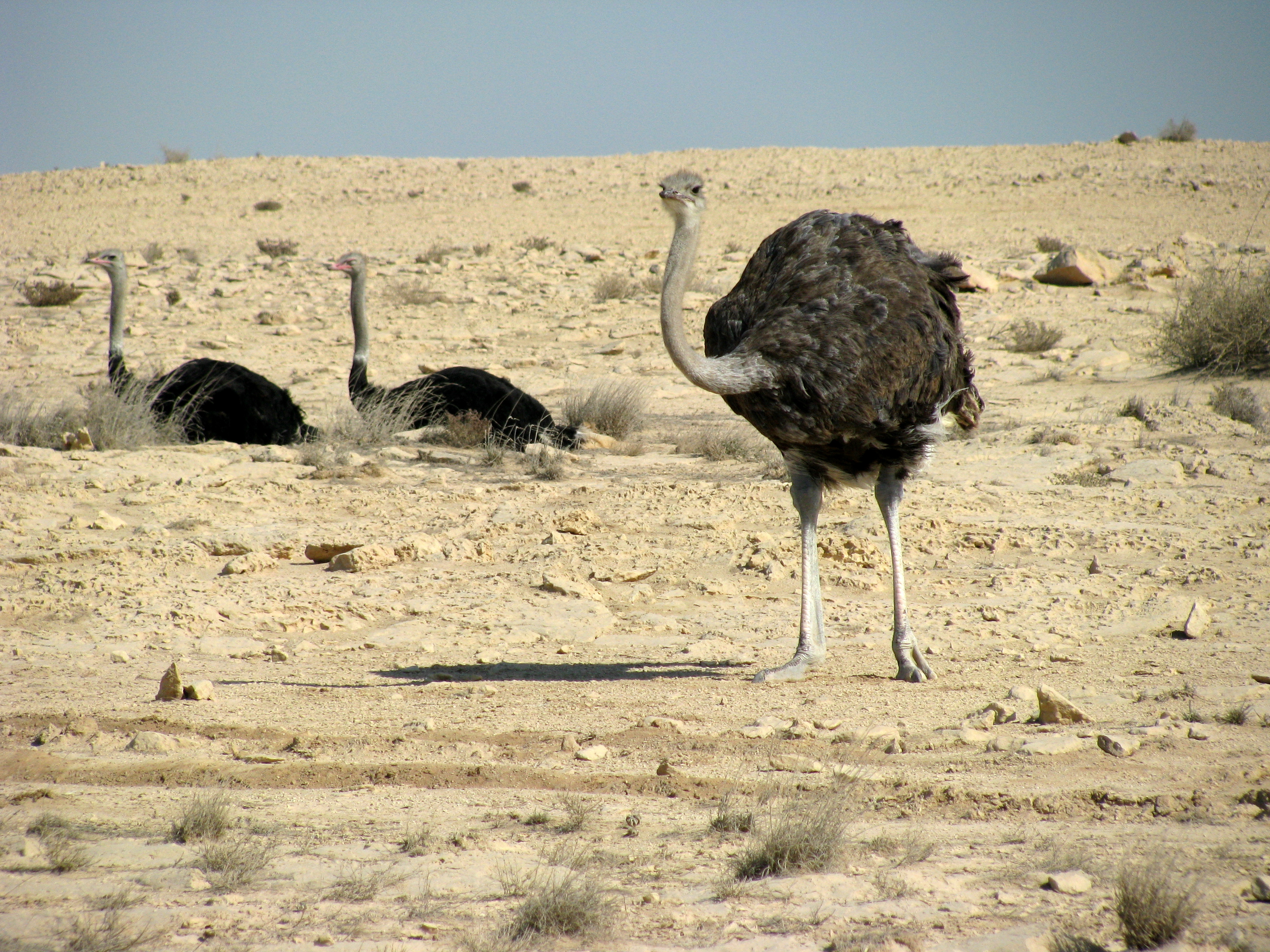 We stayed safely in the vehicle; ostriches can be quite aggressive.